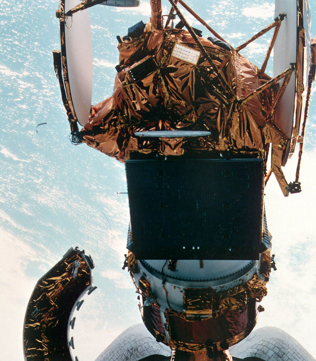 Advanced Communication Technology Satellite (ACTS) deployment from STS-51